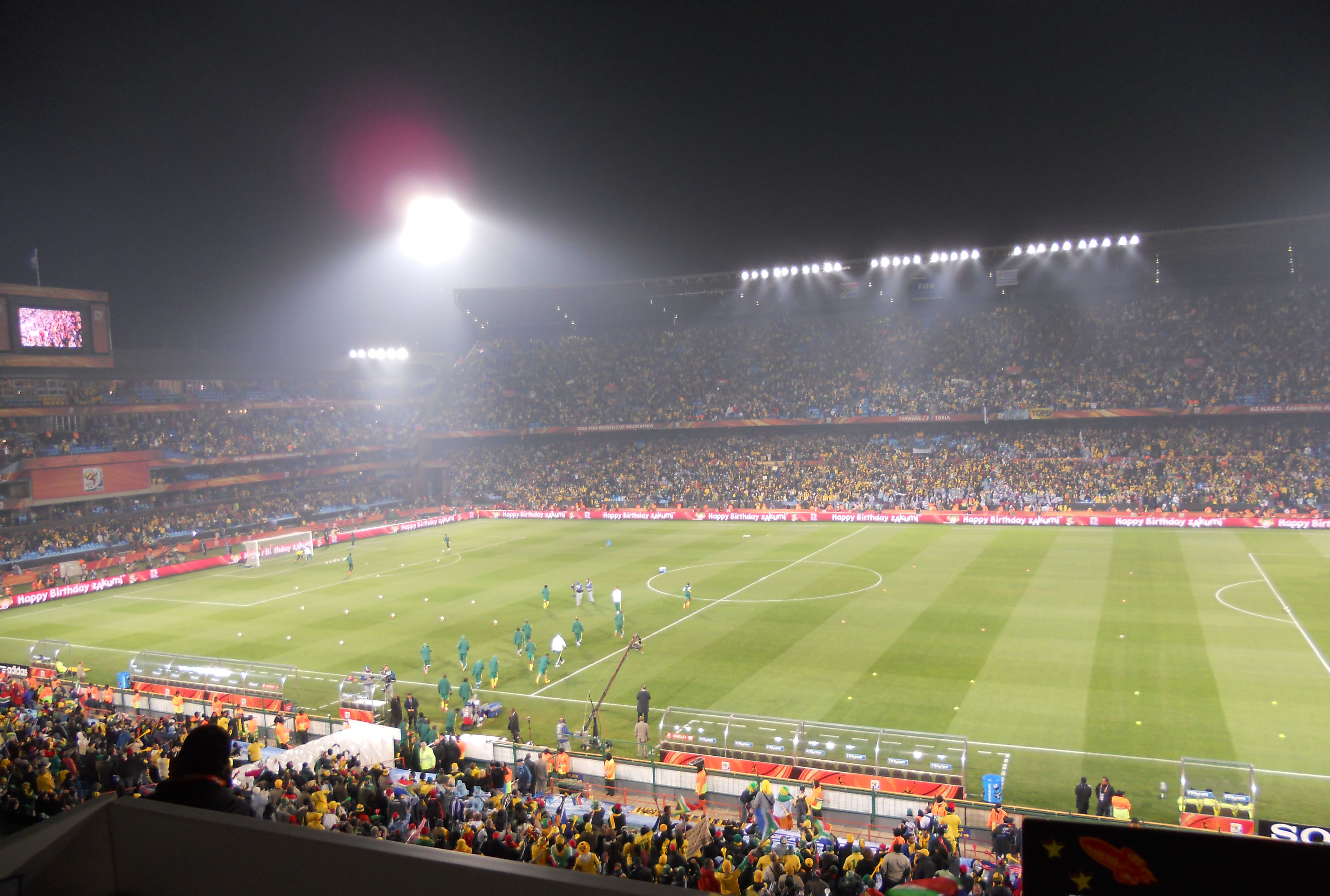 Warm-up before the game between South Africa and Uruguay at FIFA World Cup 2010, 16 June 2010, Loftus Versfeld Stadium, Pretoria